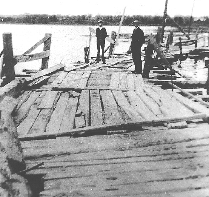 The floating Scugog Bridge between Port Perry and Scugog Island, circa 1855. The floating bridge was buried into the structure of a causeway across the lake built in the late-1800s.